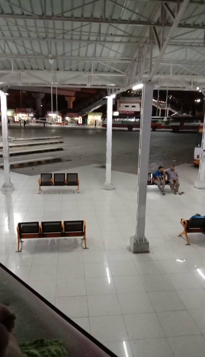 Sarsai City Bus Station in Etawah Uttar Pradesh India